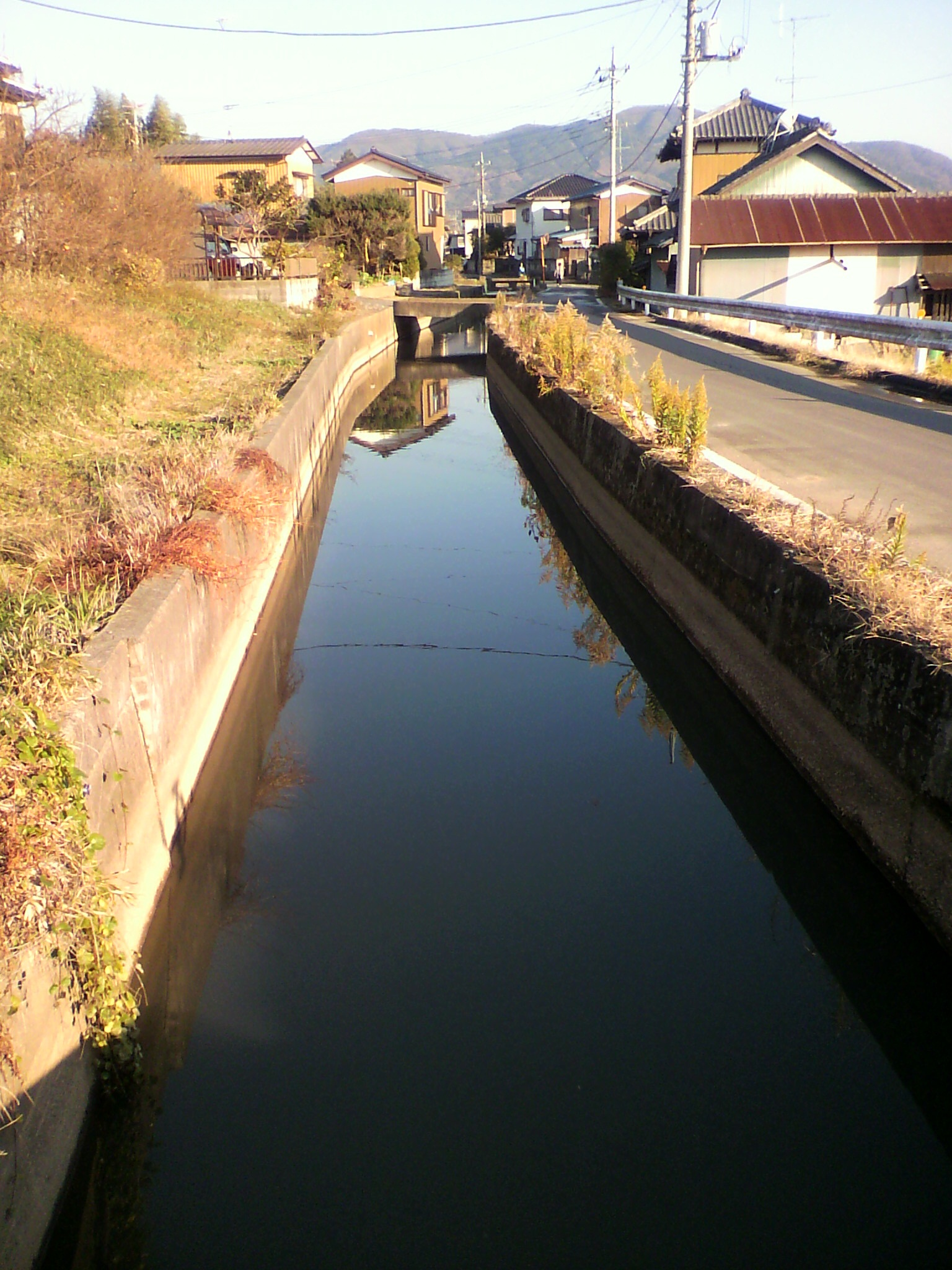 This is the waterway called "Urabori", which is located in Hojo, Tsukuba, Ibaraki, Japan.